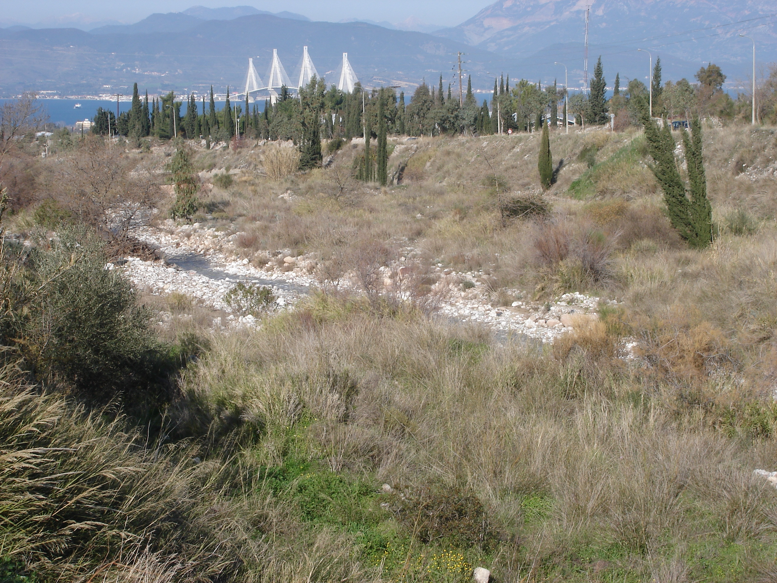 Xarandros river Greece